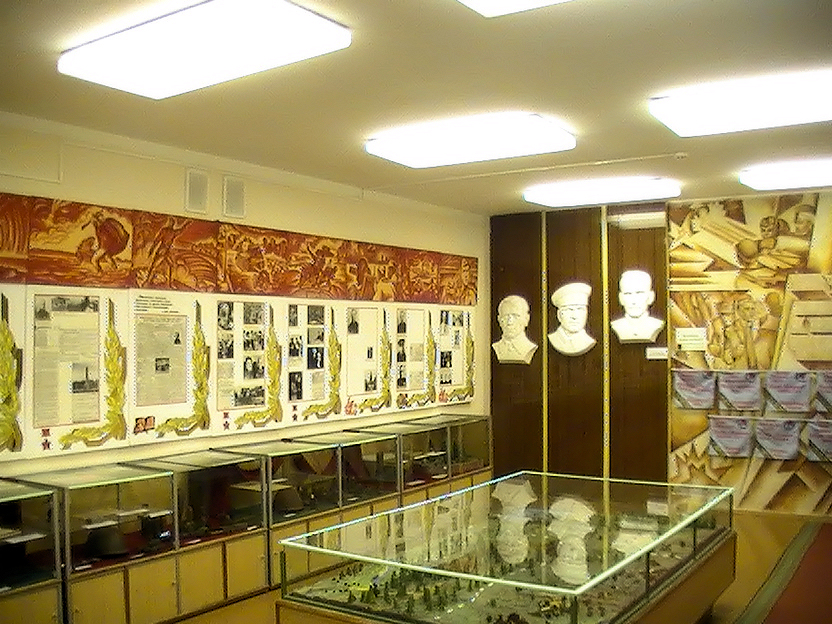 Lizyukov brothers museum in the School No. 36, Homel.